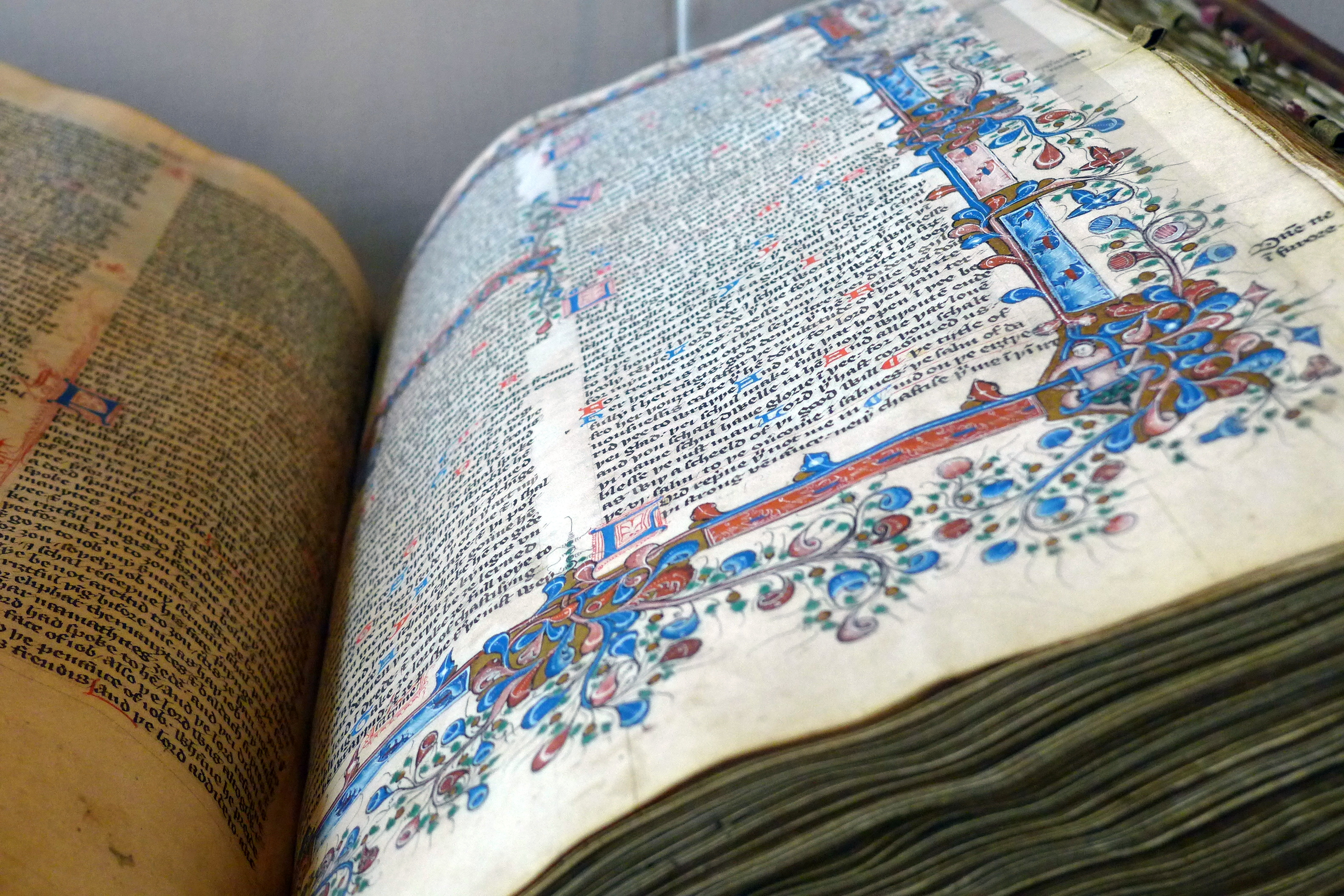 A Tyndale Bible, displayed at the Bodleian Library in June 2014.